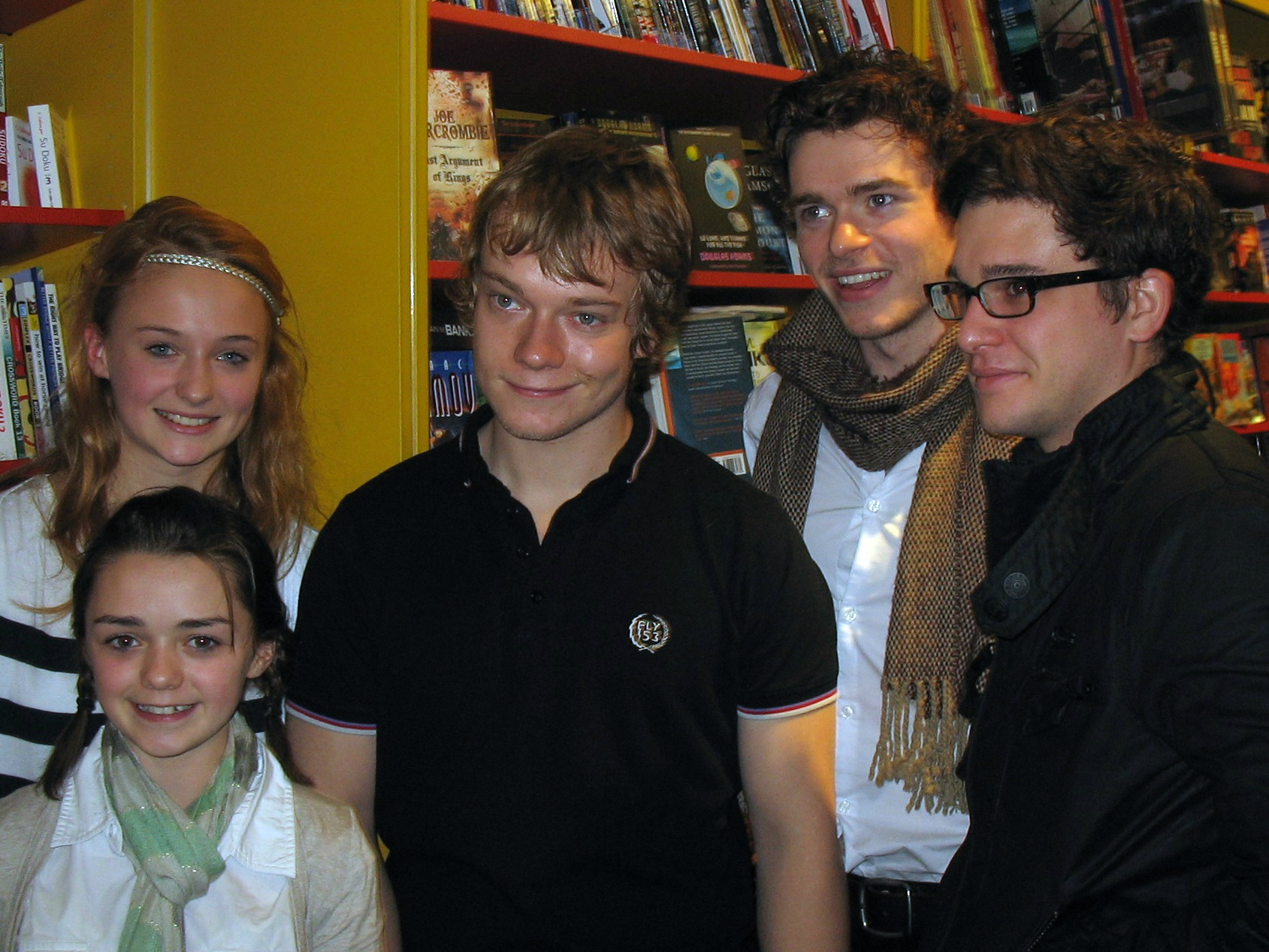 Maisie Williams, Sophie Turner, Alfie Allen, Richard Madden and Kit Harington (The Winterfell house hold) at the GRRM Easons Book signing Belfast 3rd Nov 2009, which was followed by an evening event called Moot 1 organised by the Brotherhood Without Banners (ASoIAF fandom).